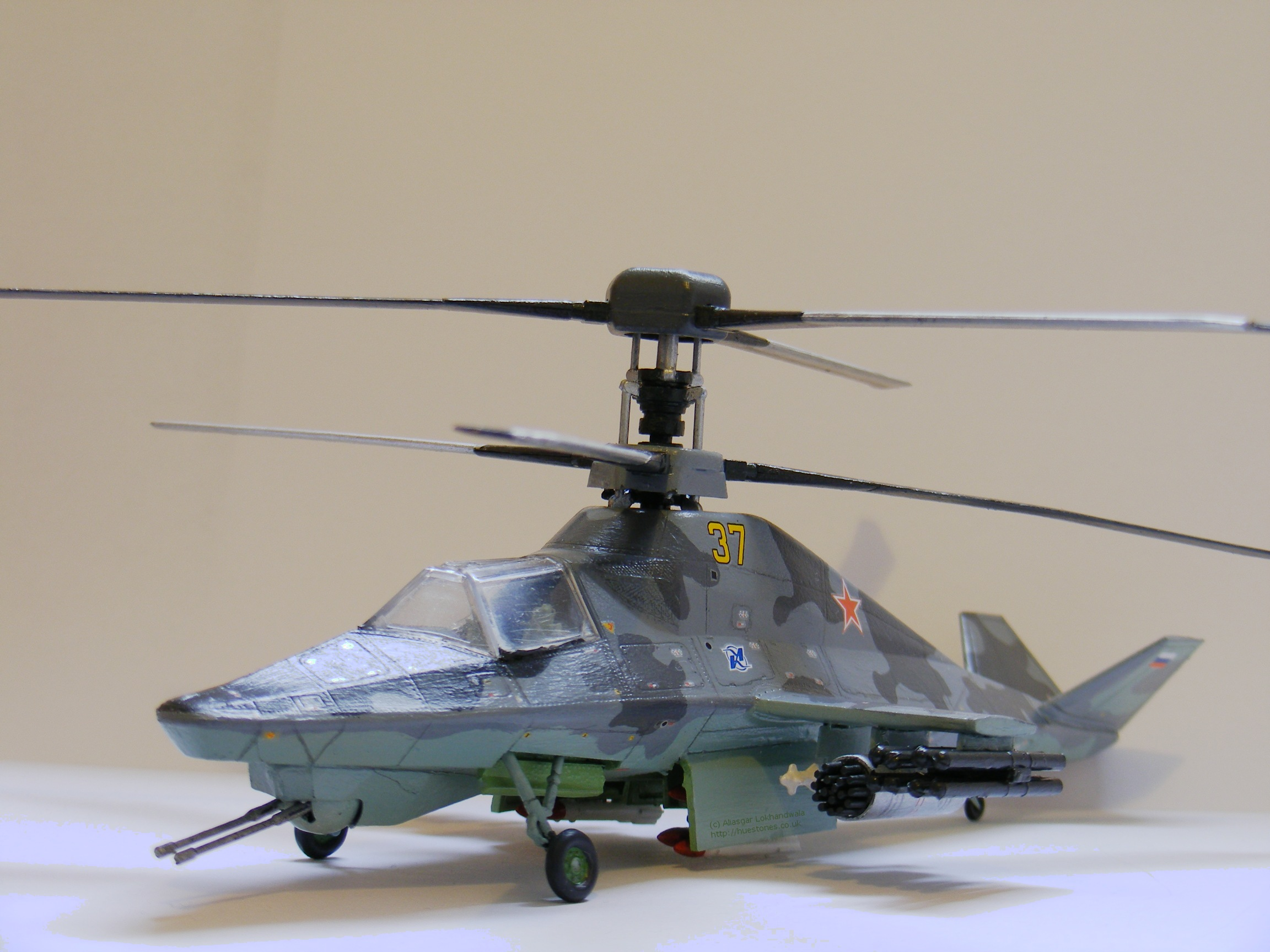 Hand painted 1:72 model of the Kamov Ka-58 by Revell